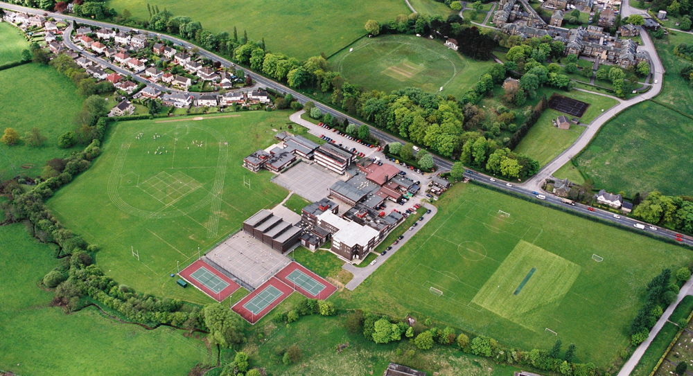 Aerial photograph of St. Mary's Catholic High School, Menston showing the site and buildings